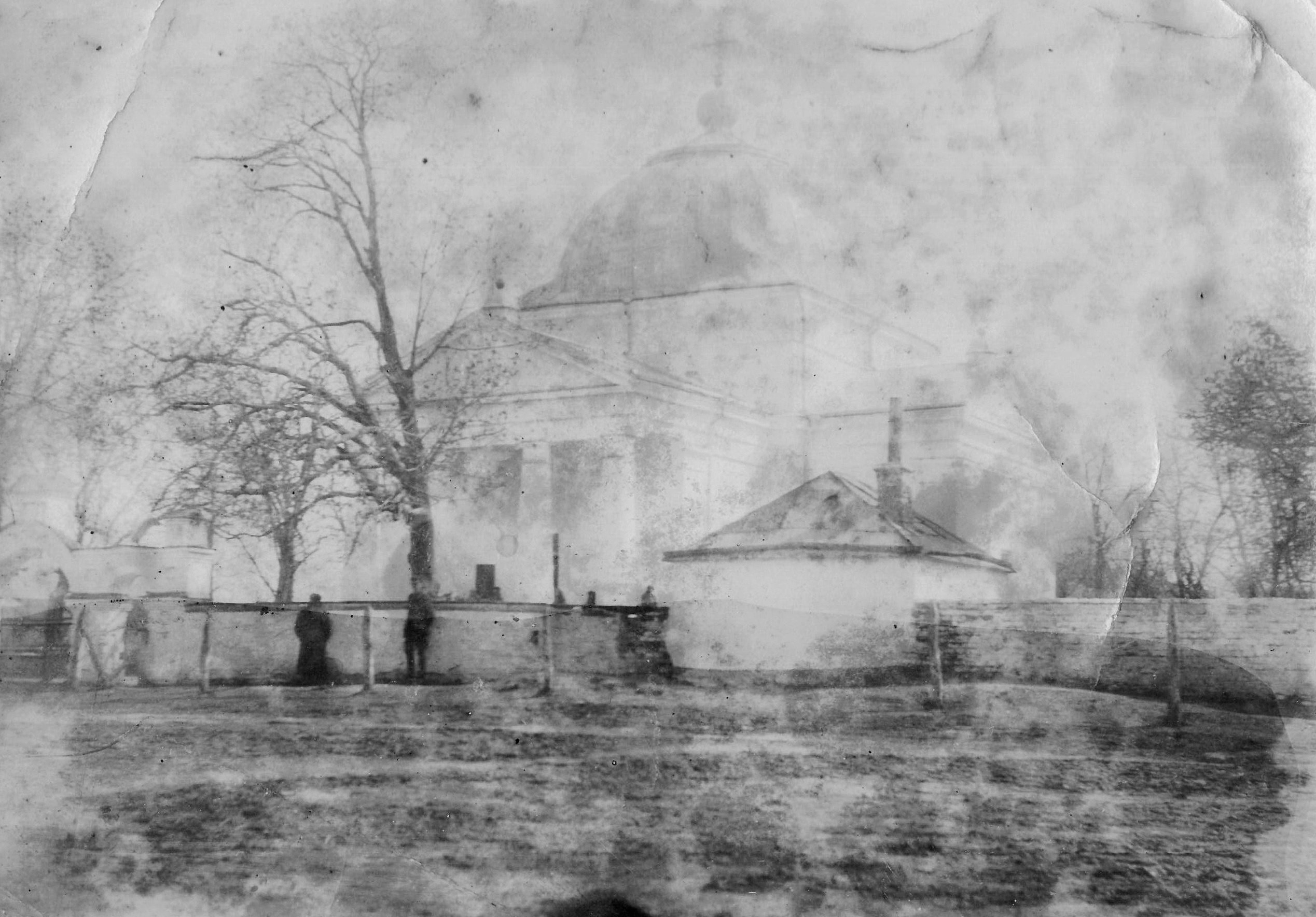 смт.Млинів